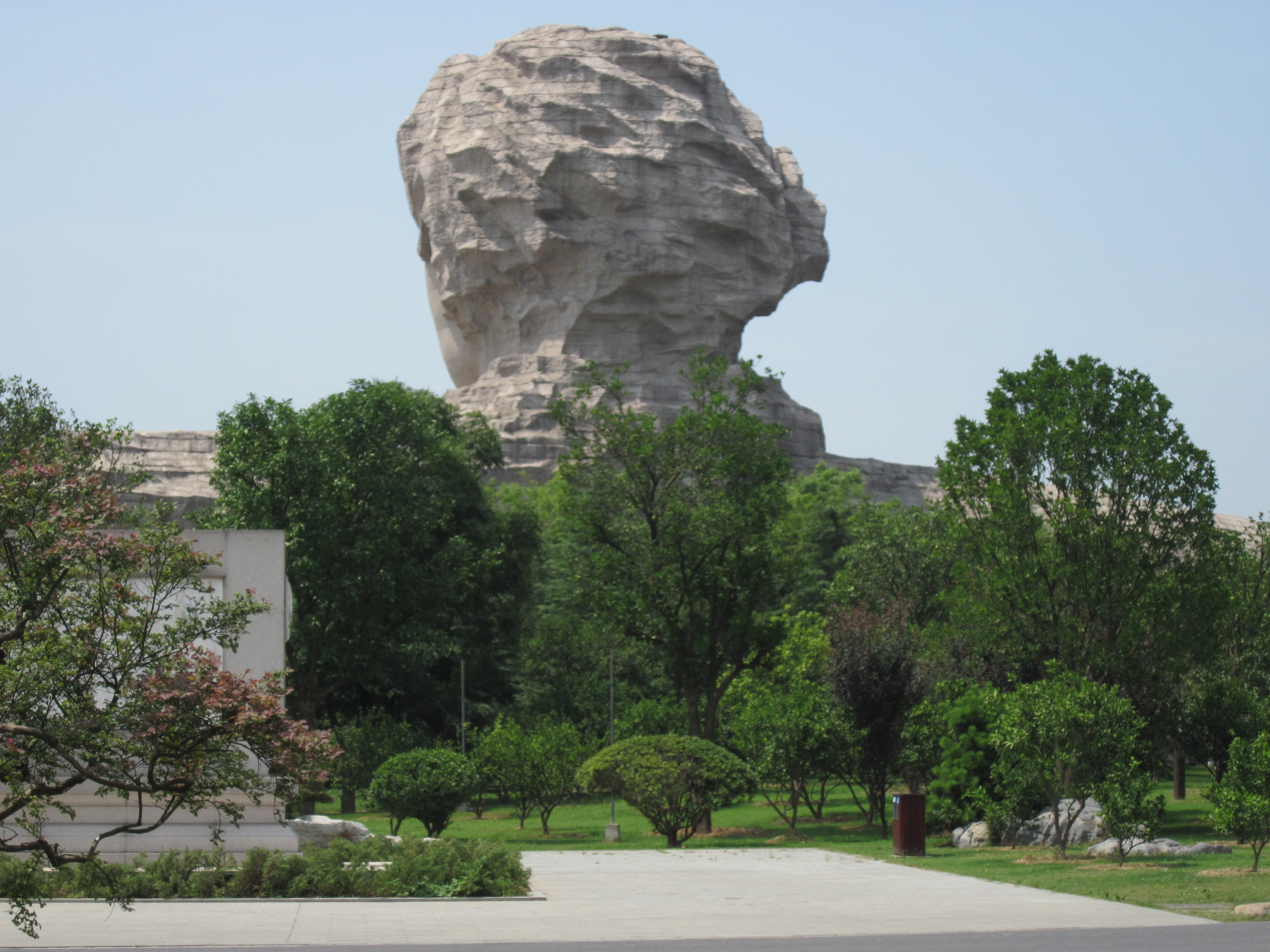 Mao Zedong youth art sculpture，in Orange continent head, Changsha